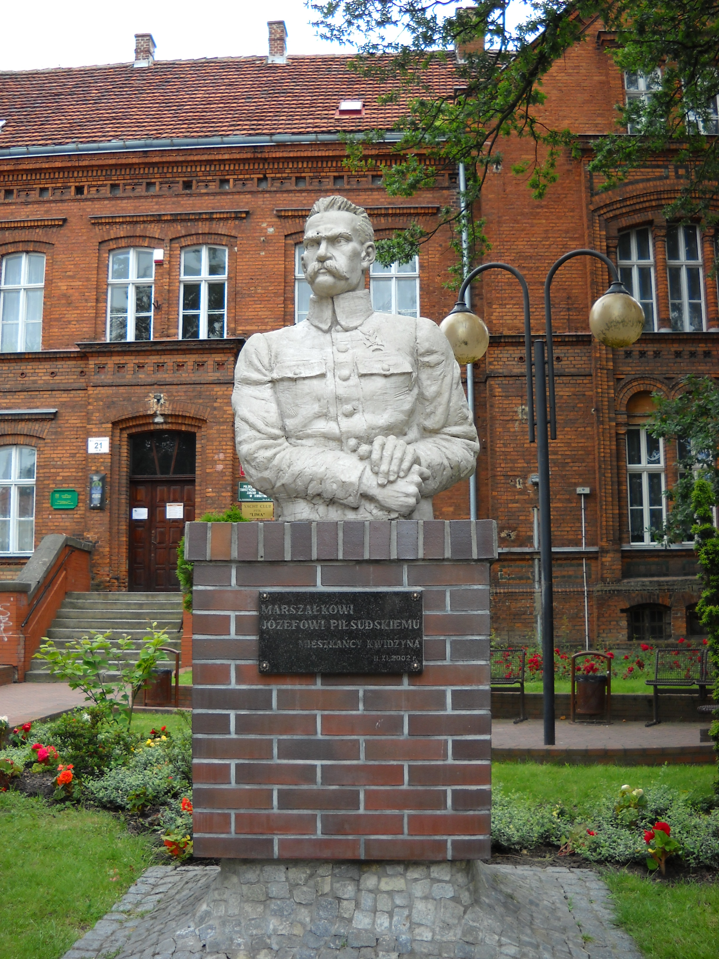 Józef Piłsudski monument in Kwidzyn